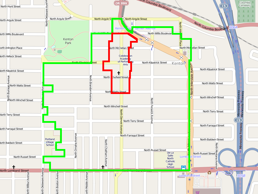 Rough boundaries of in Portland, Oregon. The district (red) is shown within the larger Kenton Conservation District (green). The base map is from , which releases their data under a suitable license. Boundaries drawn by hand using images found here.